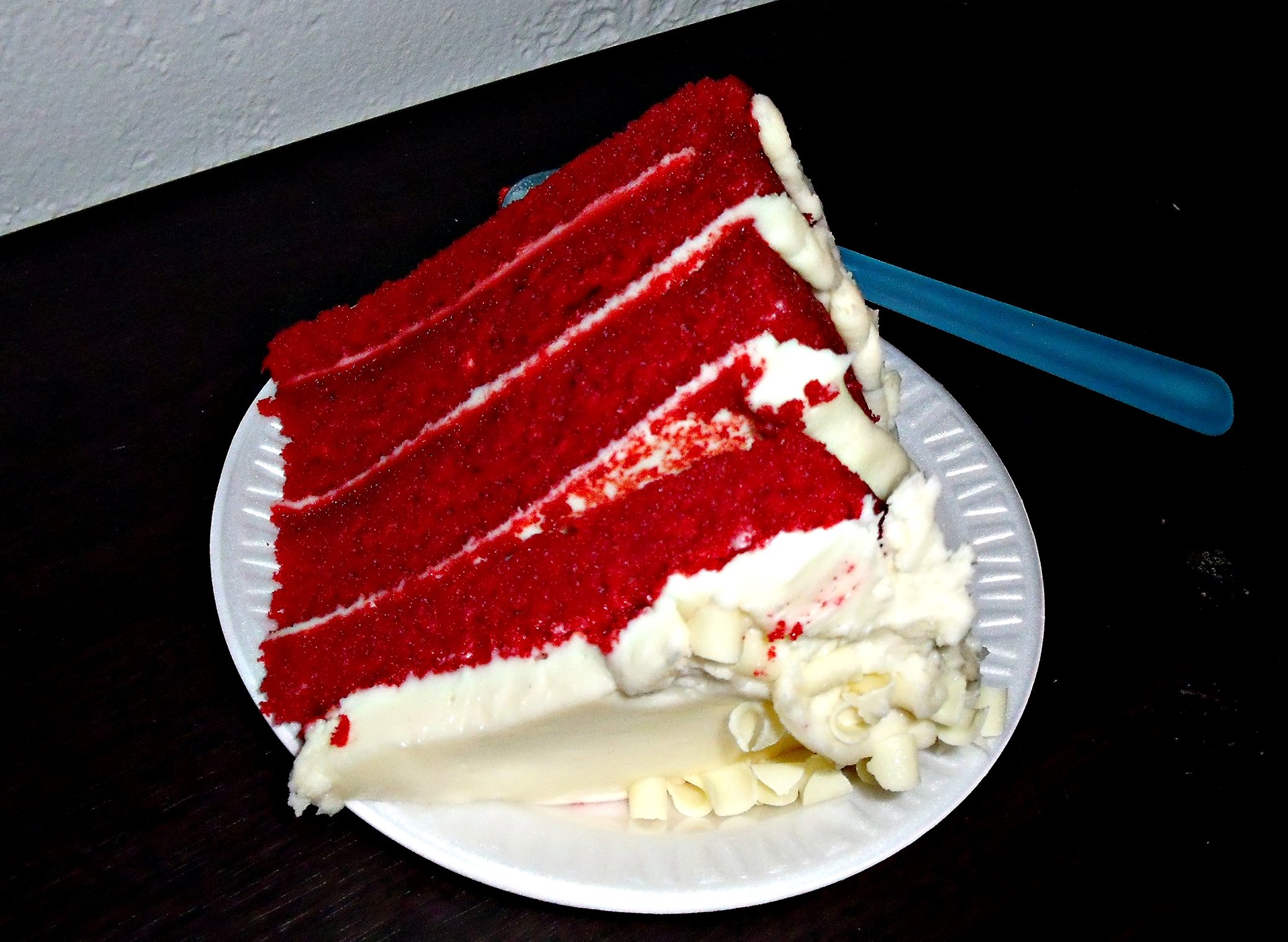 Photograph of a slice of a 4-layer red velvet cake with cream cheese icing on a styrofoam plate.